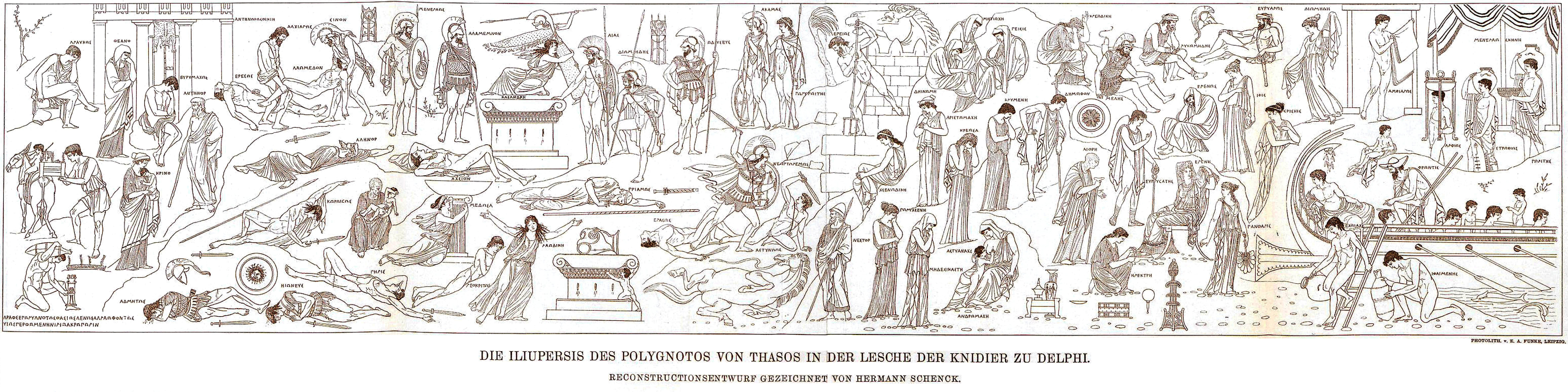 reconstruction of the ancient painting "Iliupersis" by Polygnotus